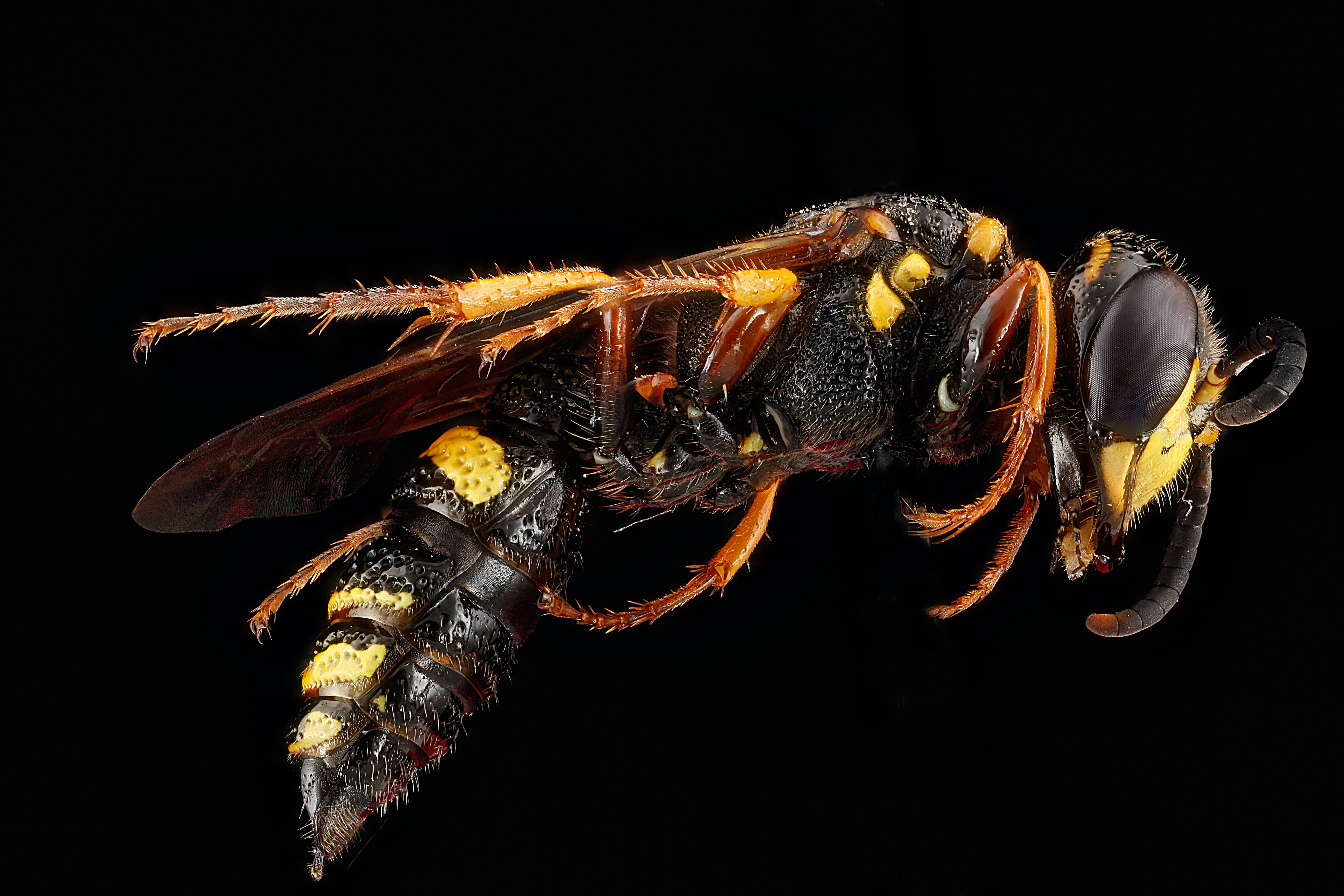 Philanthus gibbosus, female, Anne Arundel County, Patuxent Wildlife Research Refuge, Maryland, July 2012 Determination by Matthias Buck